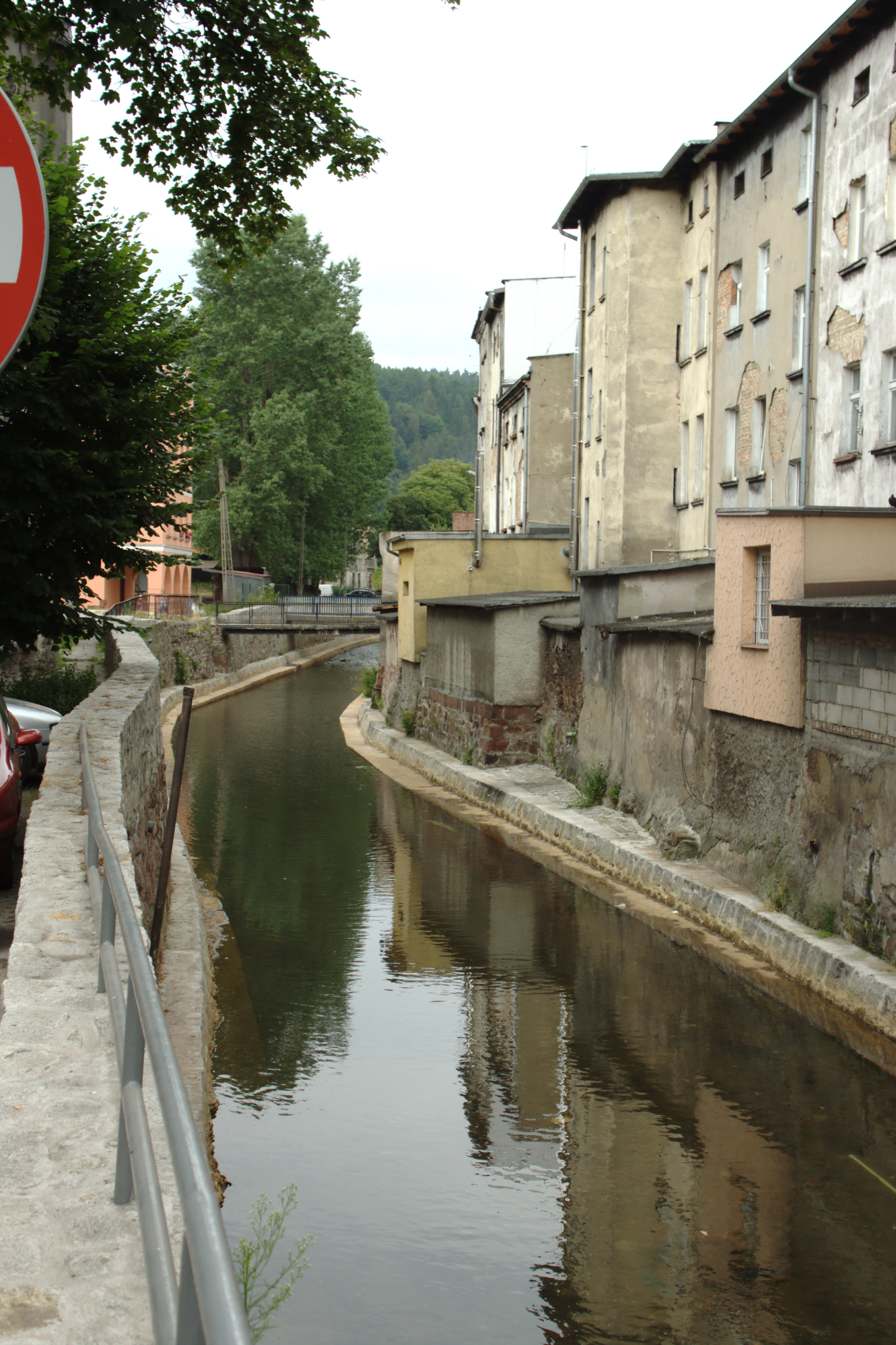 Włodzica River in Nowa Ruda, Poland